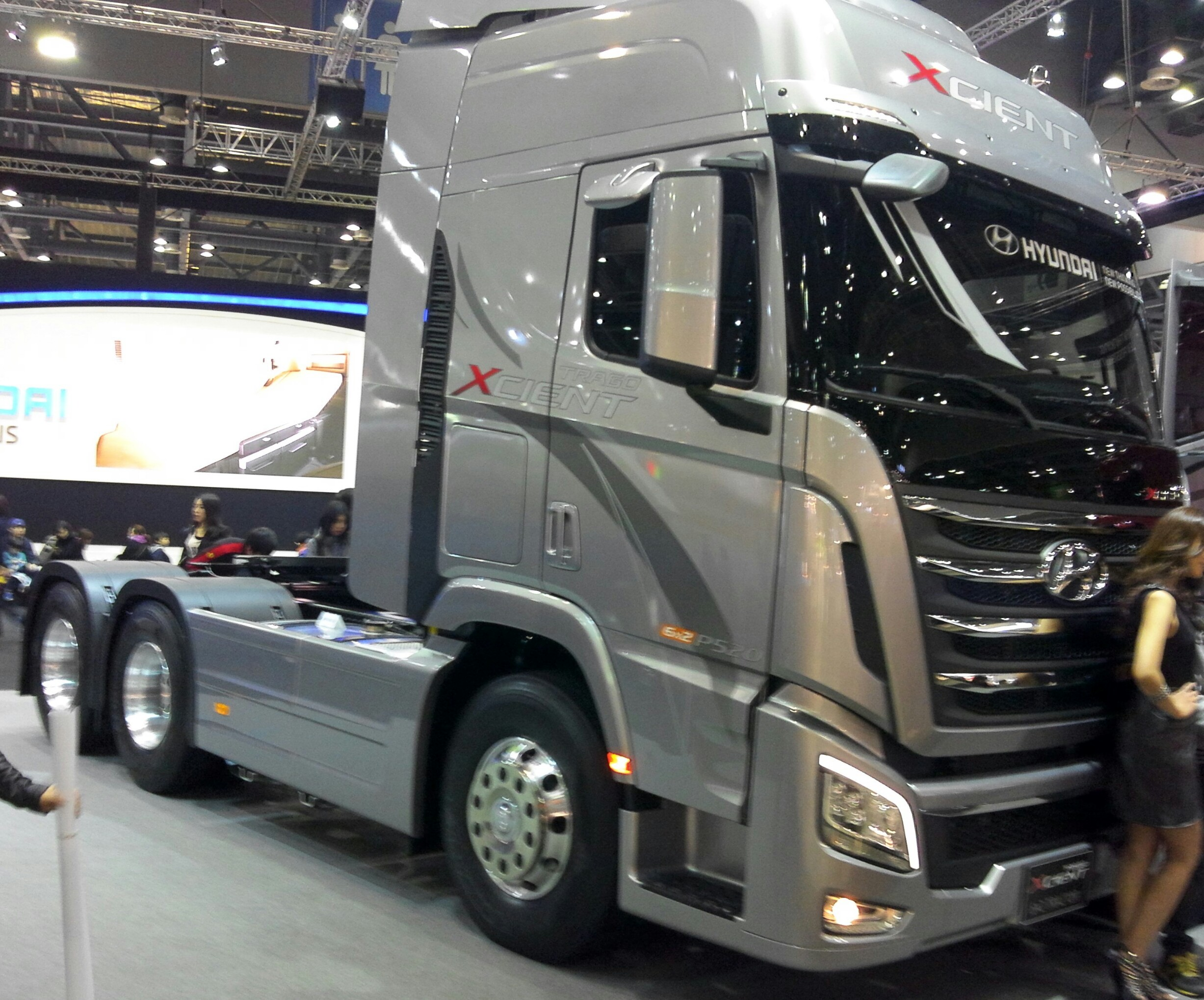 Front-right side of Hyundai Trago Xcient.